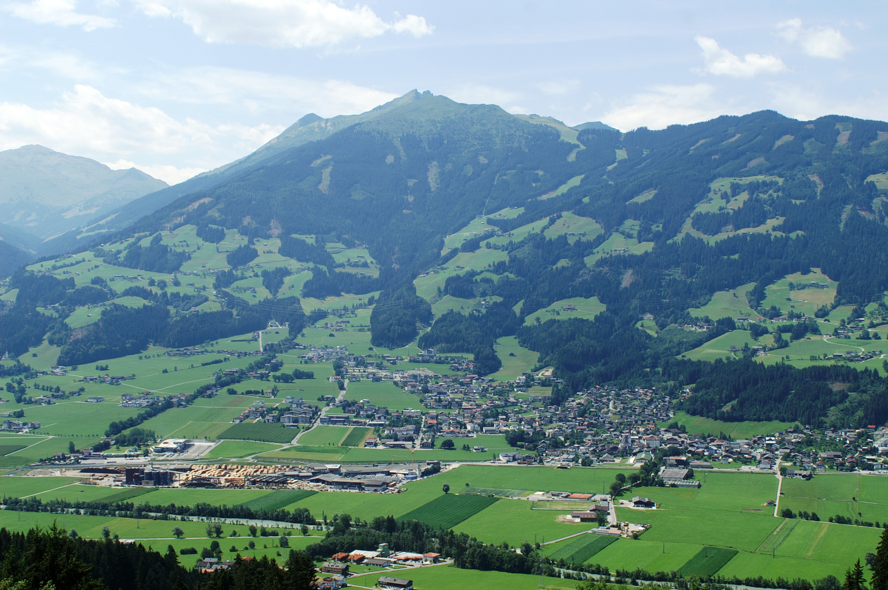 Fügen im Zillertal, Tyrol, from east, mountain Spieljoch, left background der Gilfert